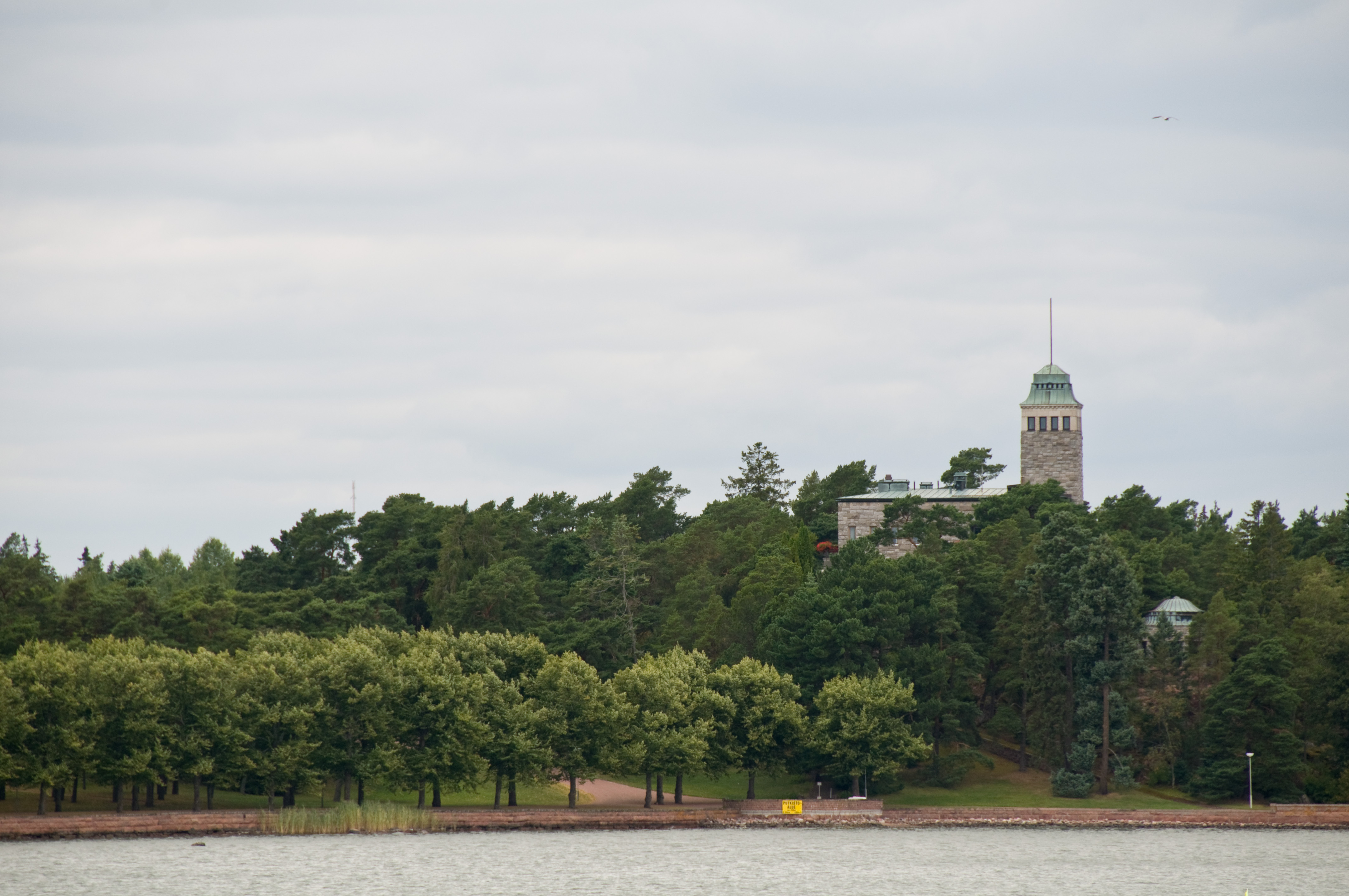 Kultaranta Castle, the summer residence of the President of Finland, in Naantali, Finland